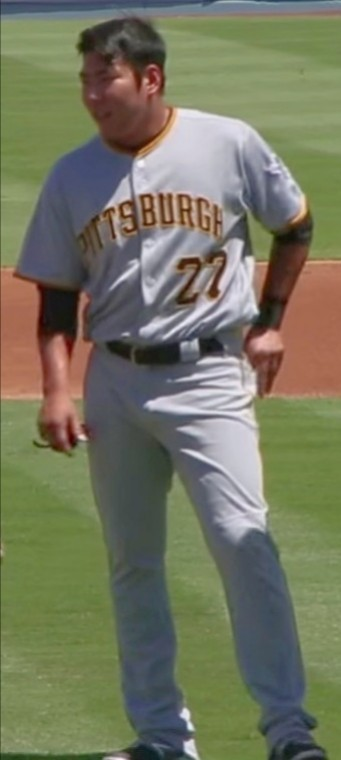 Jung-Ho Kang